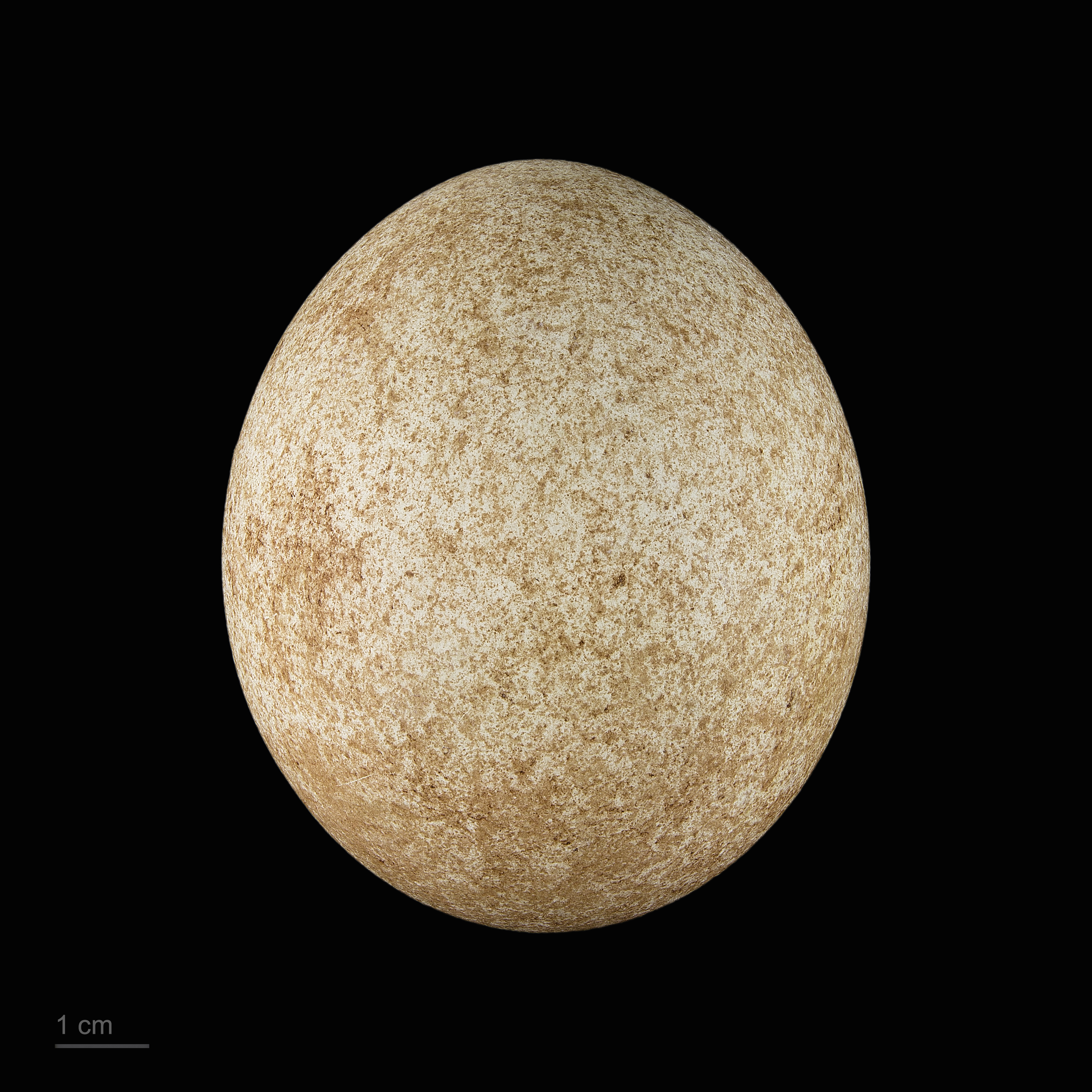 Eggs of Aquila chrysaetos chrysaetos collection of Jacques Perrin de Brichambaut.